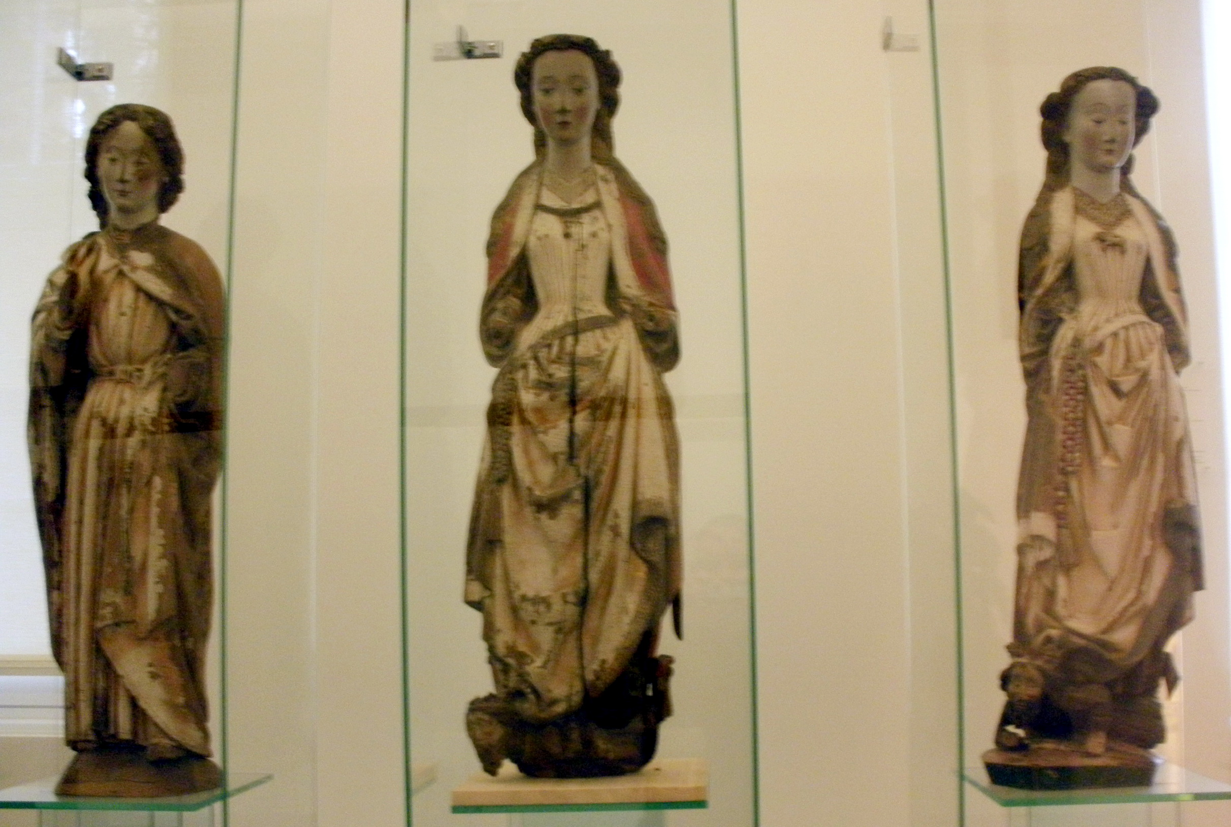 Uden, the Netherlands, Museum of Religious Art. Late medieval wooden sculptures of Saint John, Saint Catherine and Saint Barbara by the Master of Coudewater (c 1470).